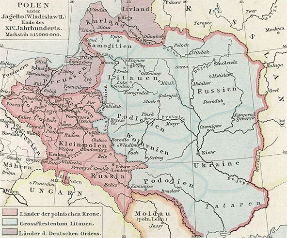 Poland-Lithuania under Władysław II Jagiełło